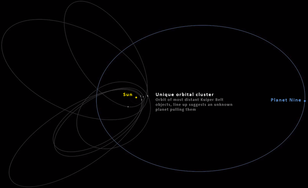 Planet Nine related clustering of small objects detected